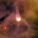 One of 42 new proplyds discovered in the Orion Nebula, 170-249 is one of the bright proplyds that lies relatively close to the nebula’s brightest star, Theta¹ Orionis C. This tadpole-shaped tail is actually a jet of matter flowing away from the excited cusp.